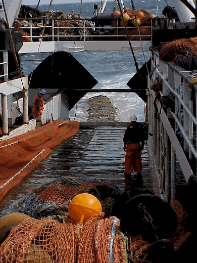 A 40 ton catch of Pacific ocean perch, Sebastes alutus, about to come on board the fishing vessel Unimak during a 1999 fishing experiment conducted by the NOAA Alaska Fisheries Science Center to help improve rockfish trawl surveys.